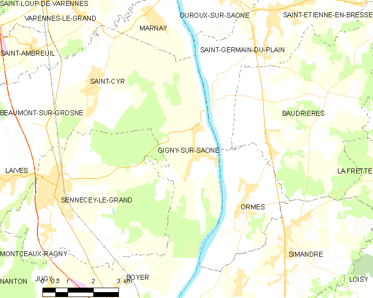 Map of French municipality